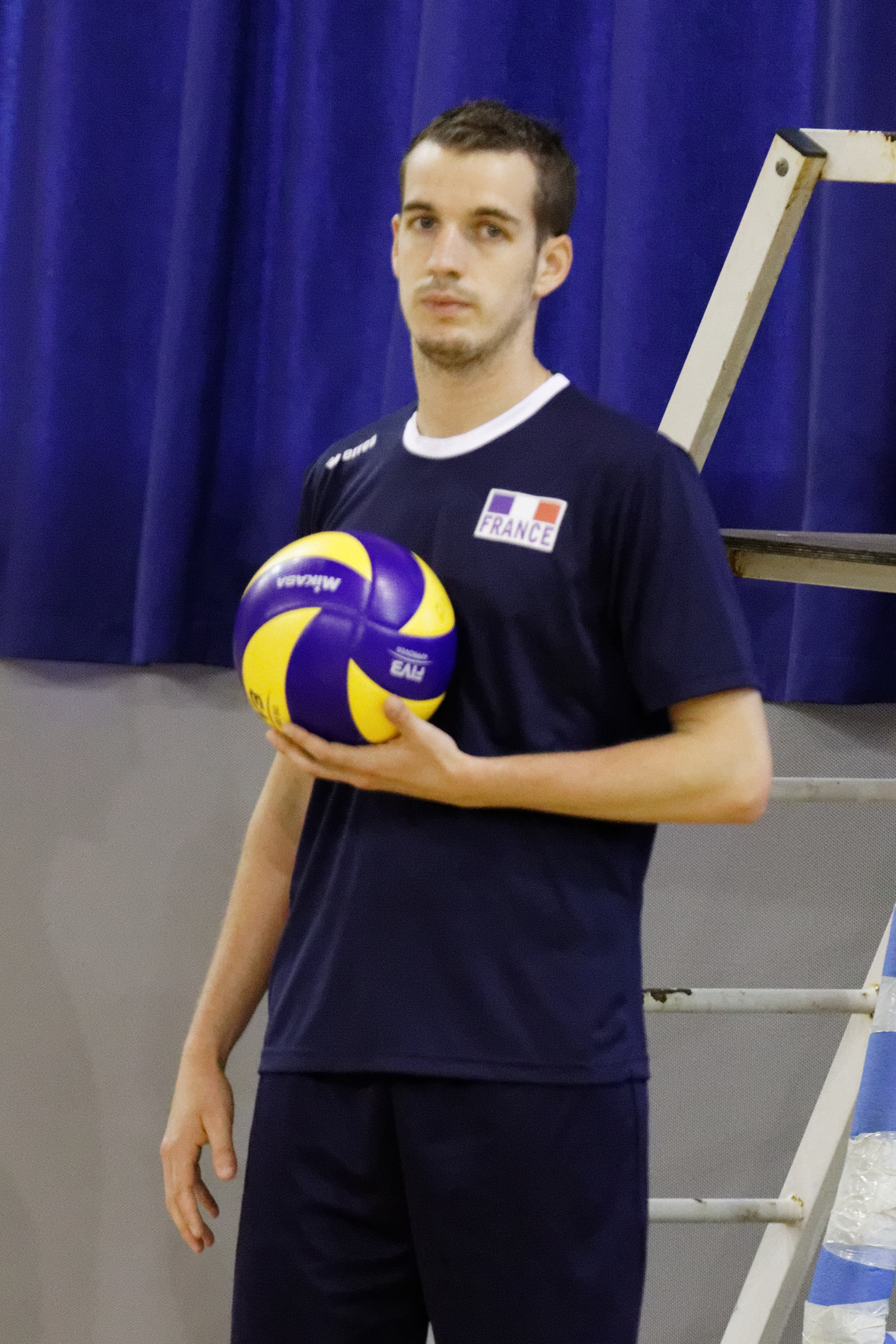 Press conference before the FIVB Volleyball Men's World Championship, 26 August 2014.